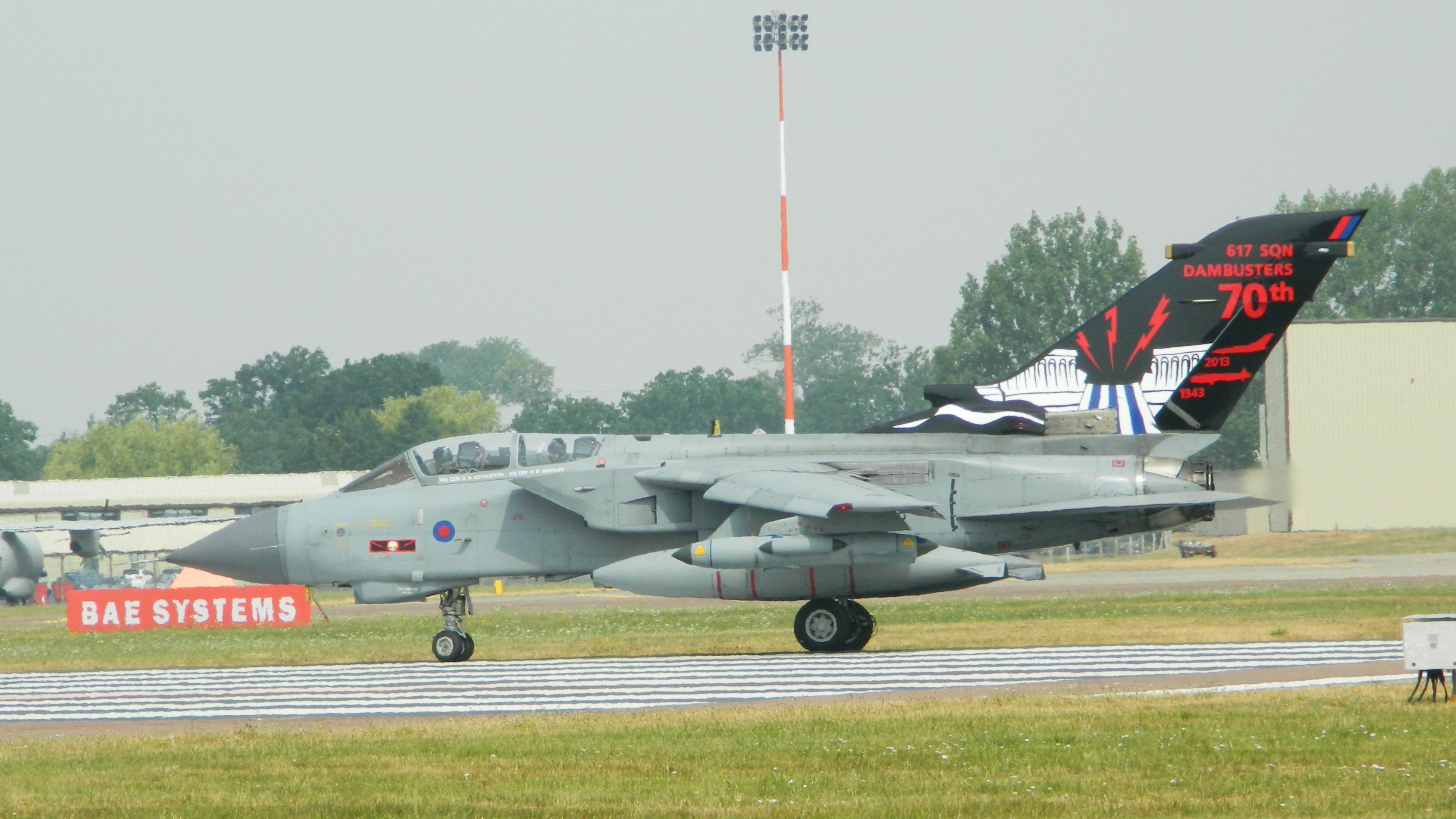 Royal Air Force Panavia Tornado serial number ZA412 departs RAF Fairford on the Royal International Air Tattoo departure day Monday 22 July 2013